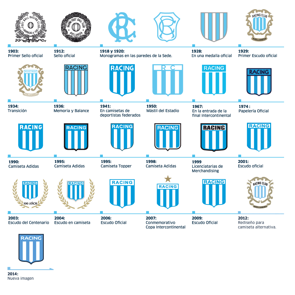 Racing Club's historical Shields.